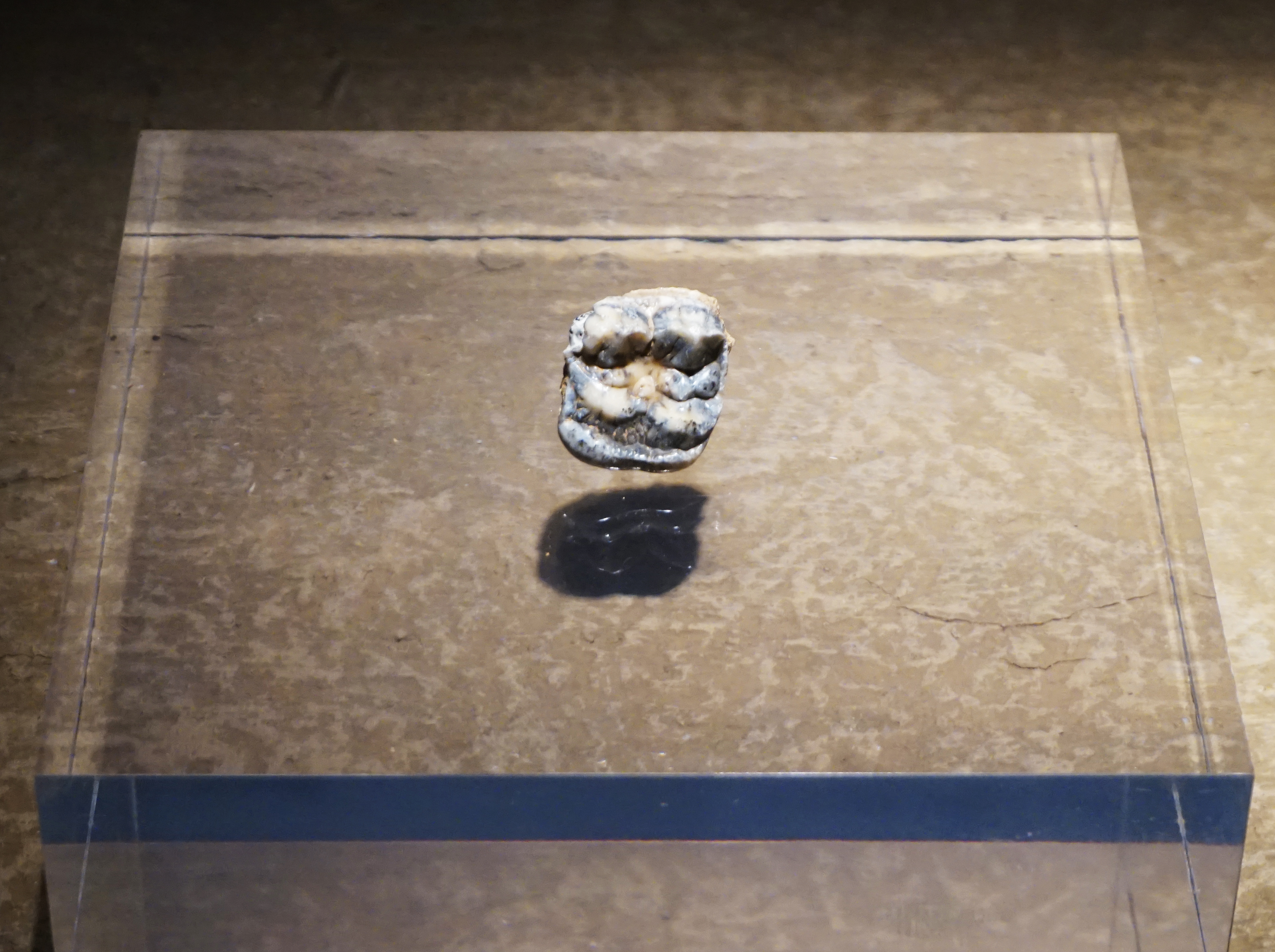 Tooth fossil of a panda which lived 50,000 year ago.